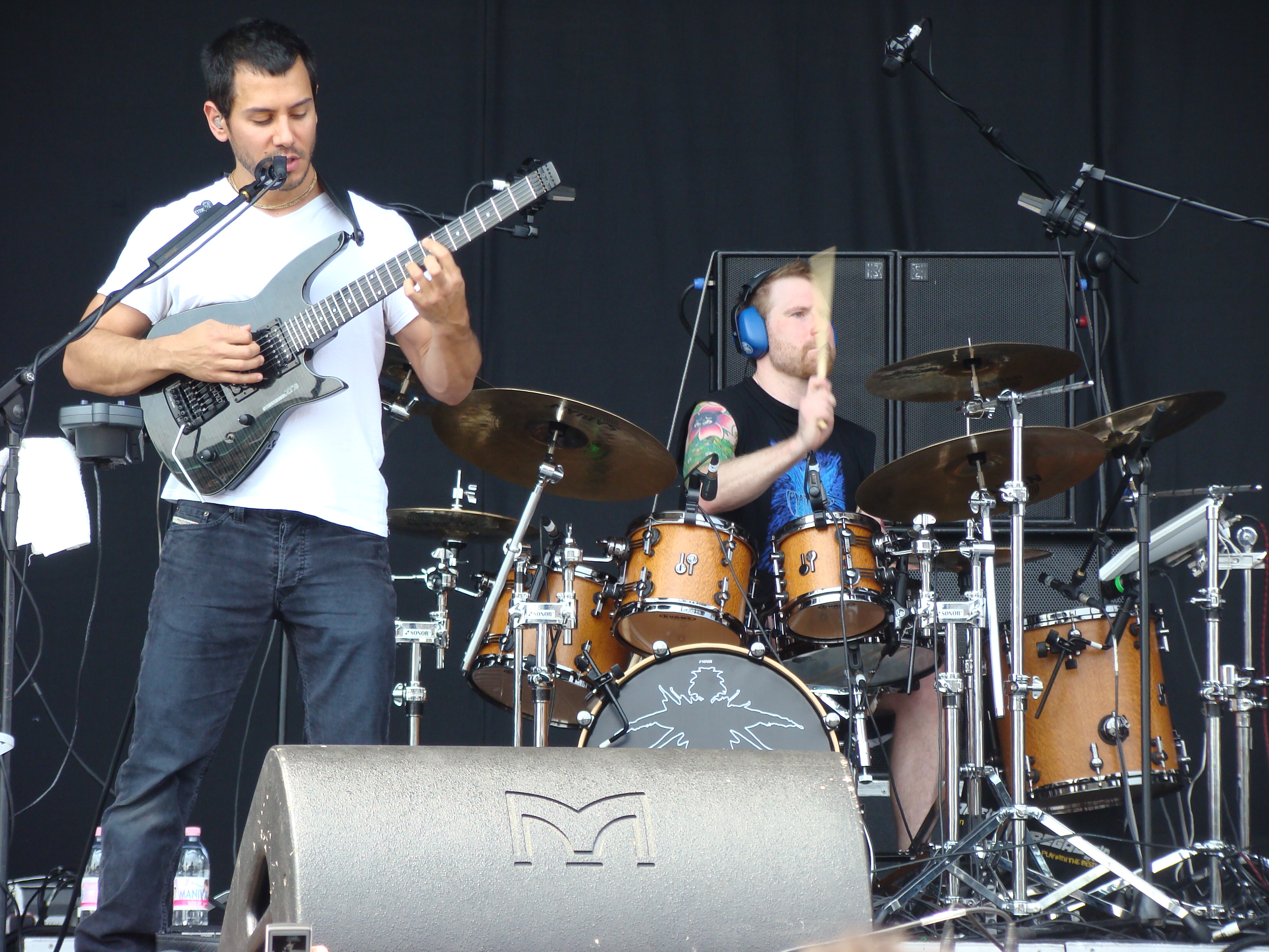 Cynic live at Gods of Metal in 2009